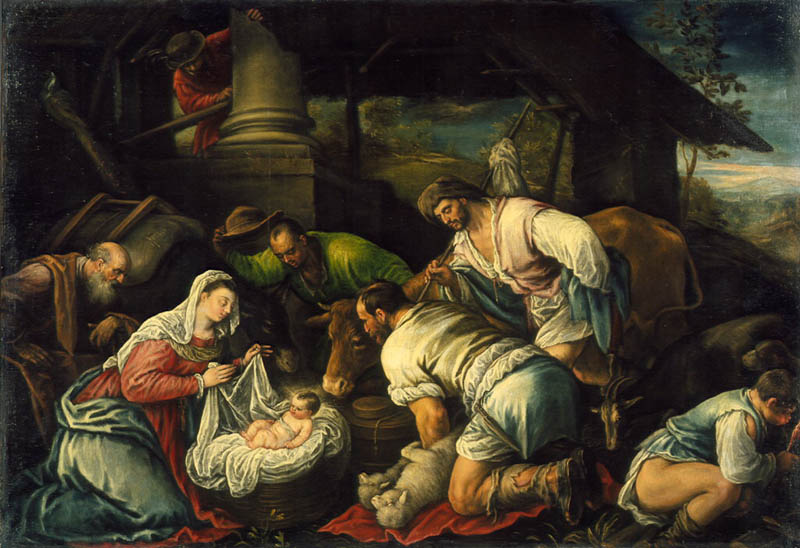 Adoration of the Shephards